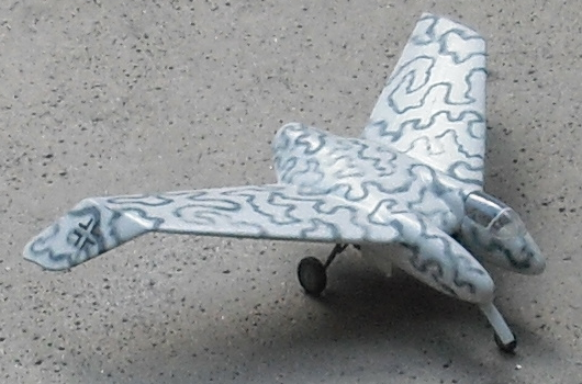 Model photo Heinkel P.1078 B